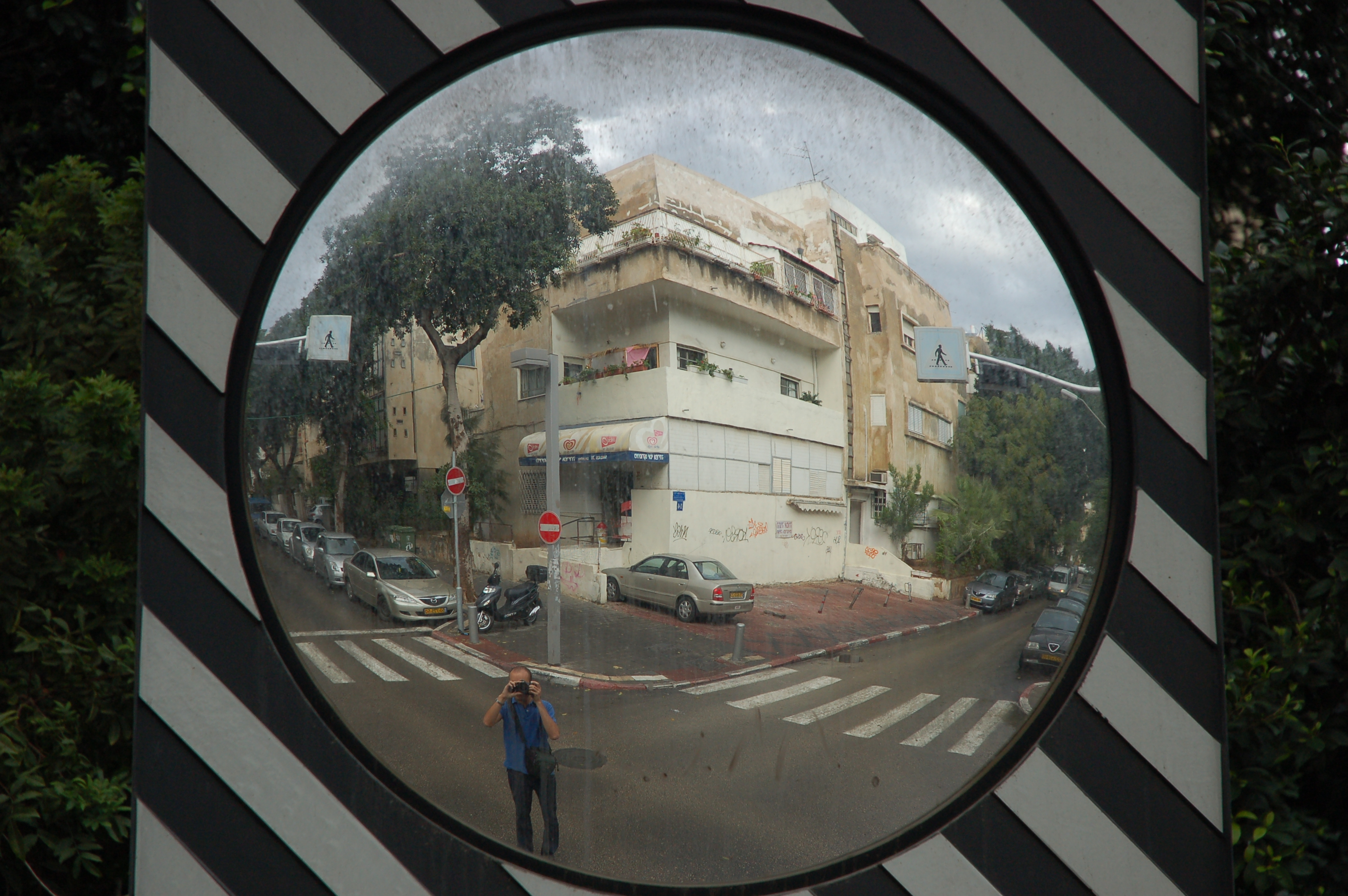 Panoramic Mirror